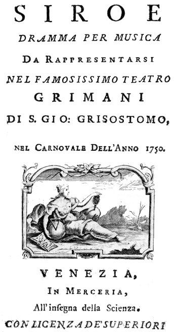 Gioacchino Cocchi - Siroe - titlepage of the libretto - Venice 1750